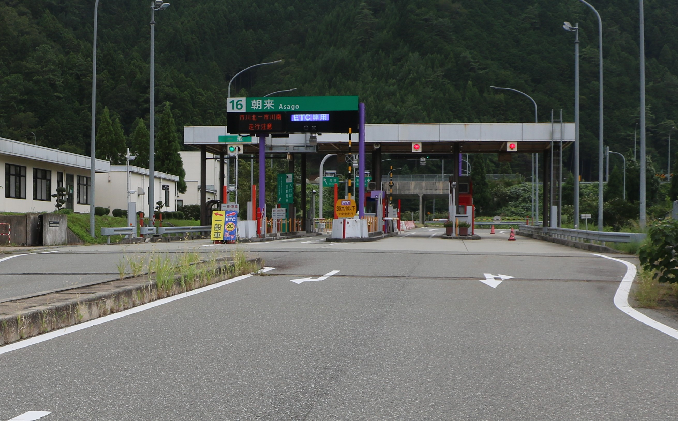 Bantan Renraku Expressway Asago Interchange.